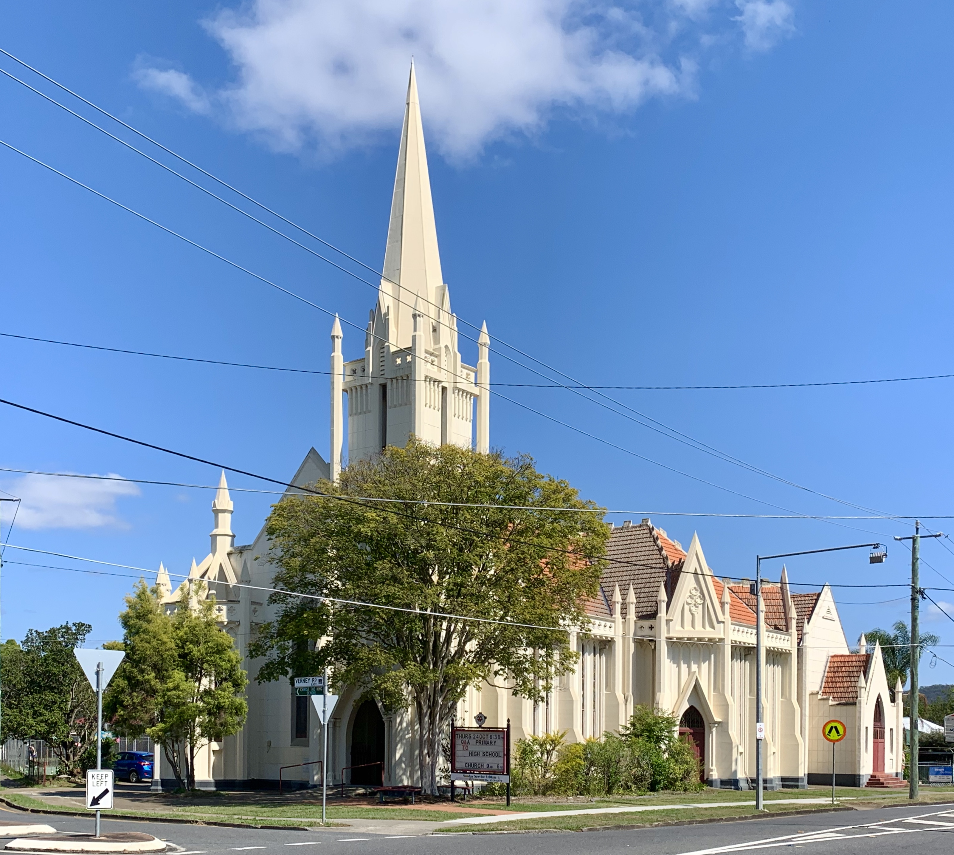 Graceville Uniting Church, Graceville, Queensland, Australia